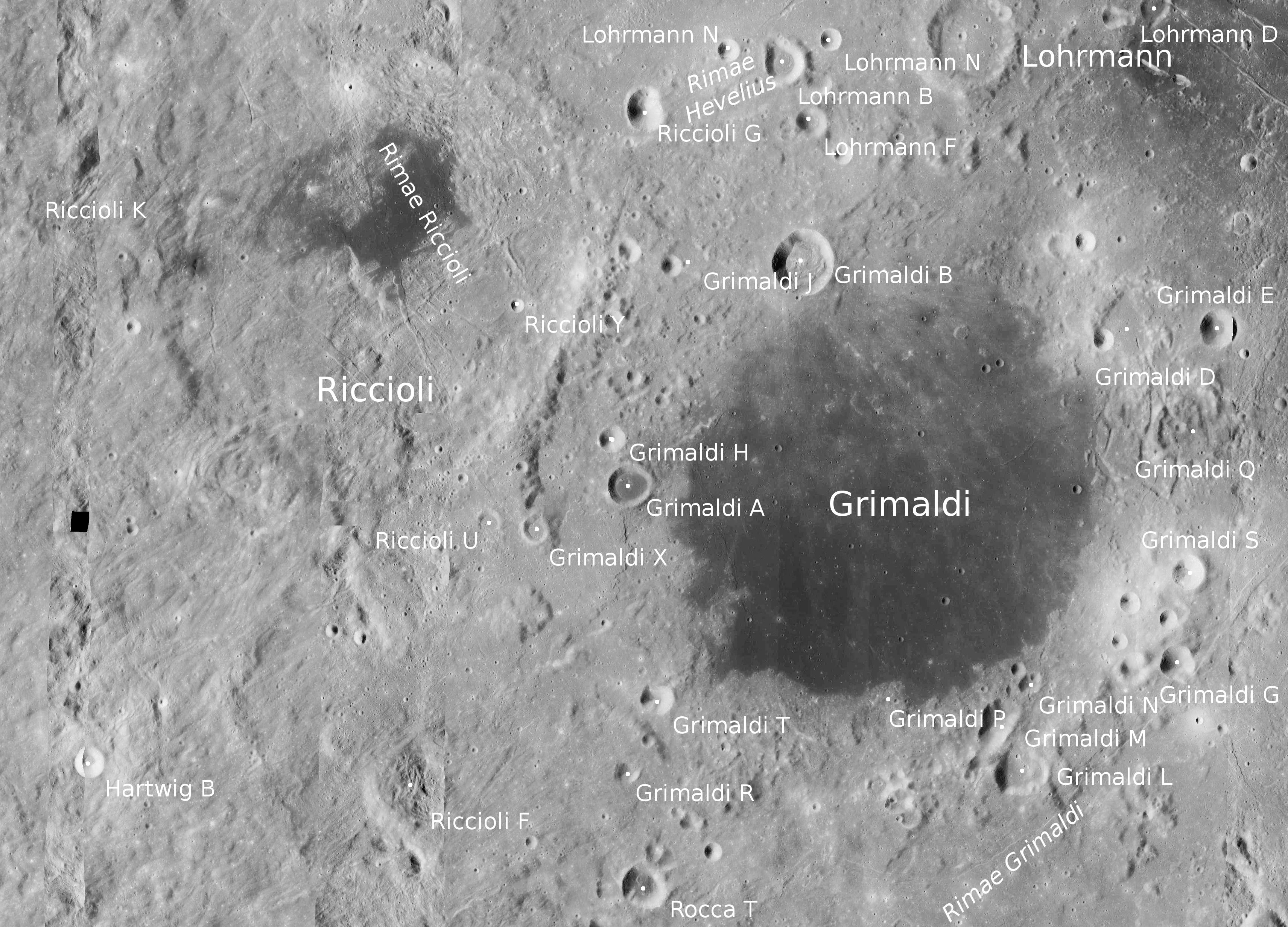 Craters Grimaldi and Riccioli (detail of LRO - WAC global moon mosaic; Mercator projection)